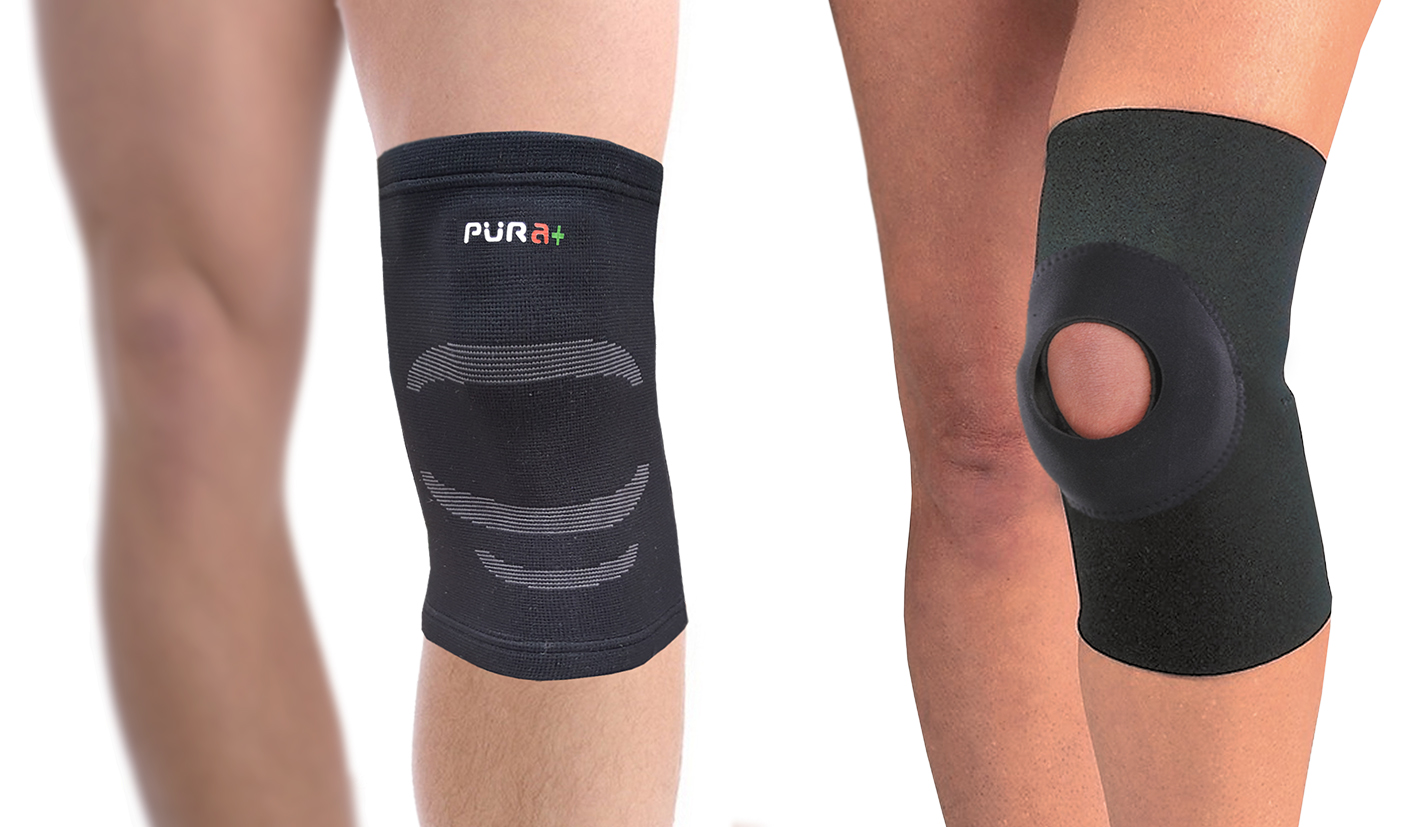 Different Types of Knee Support